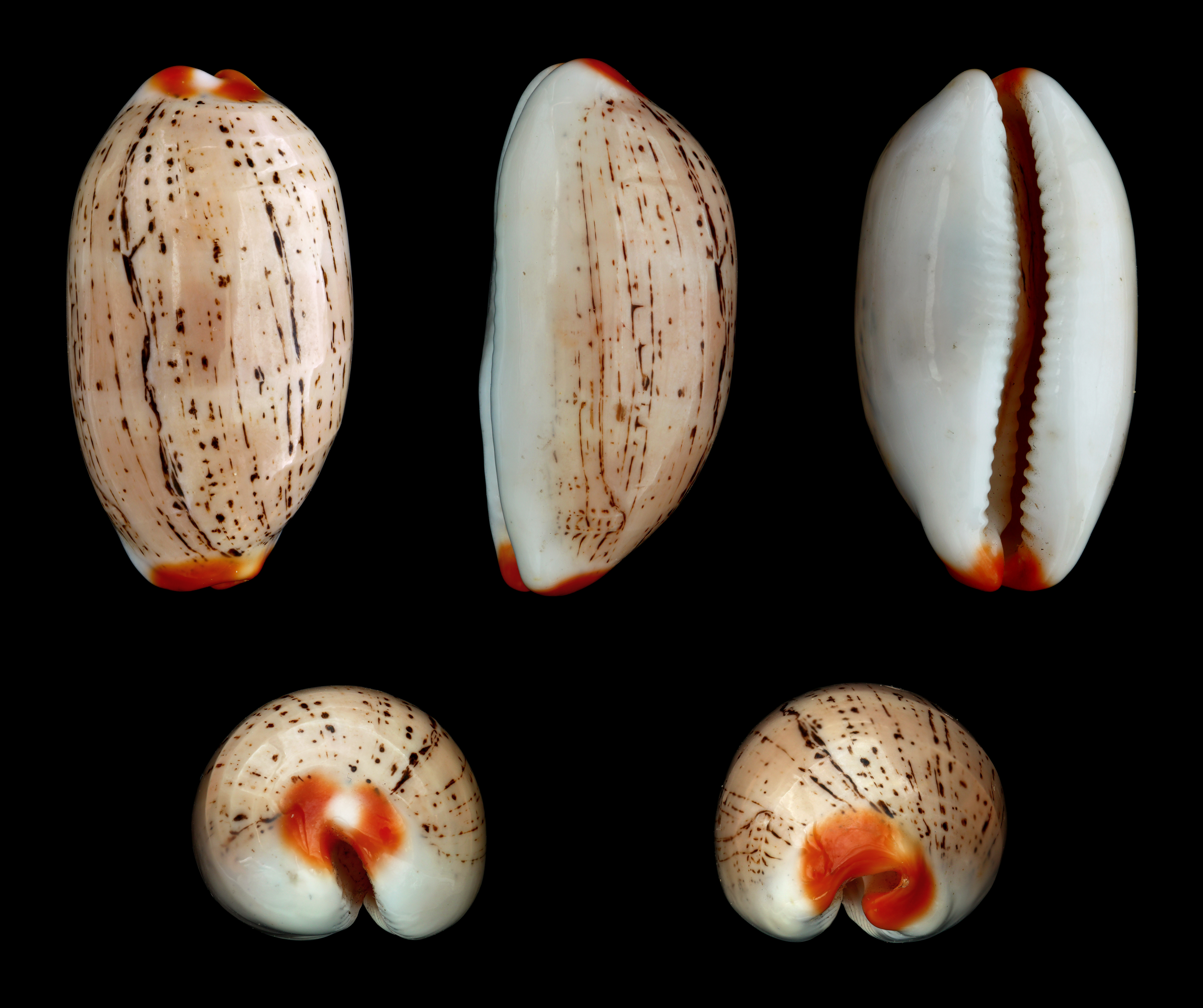 Isabel's Cowry; Length 3.2 cm; Originating from the Indo-Pacific; Shell of own collection, therefore not geocoded. Dorsal, lateral (right side), ventral, back, and front view.